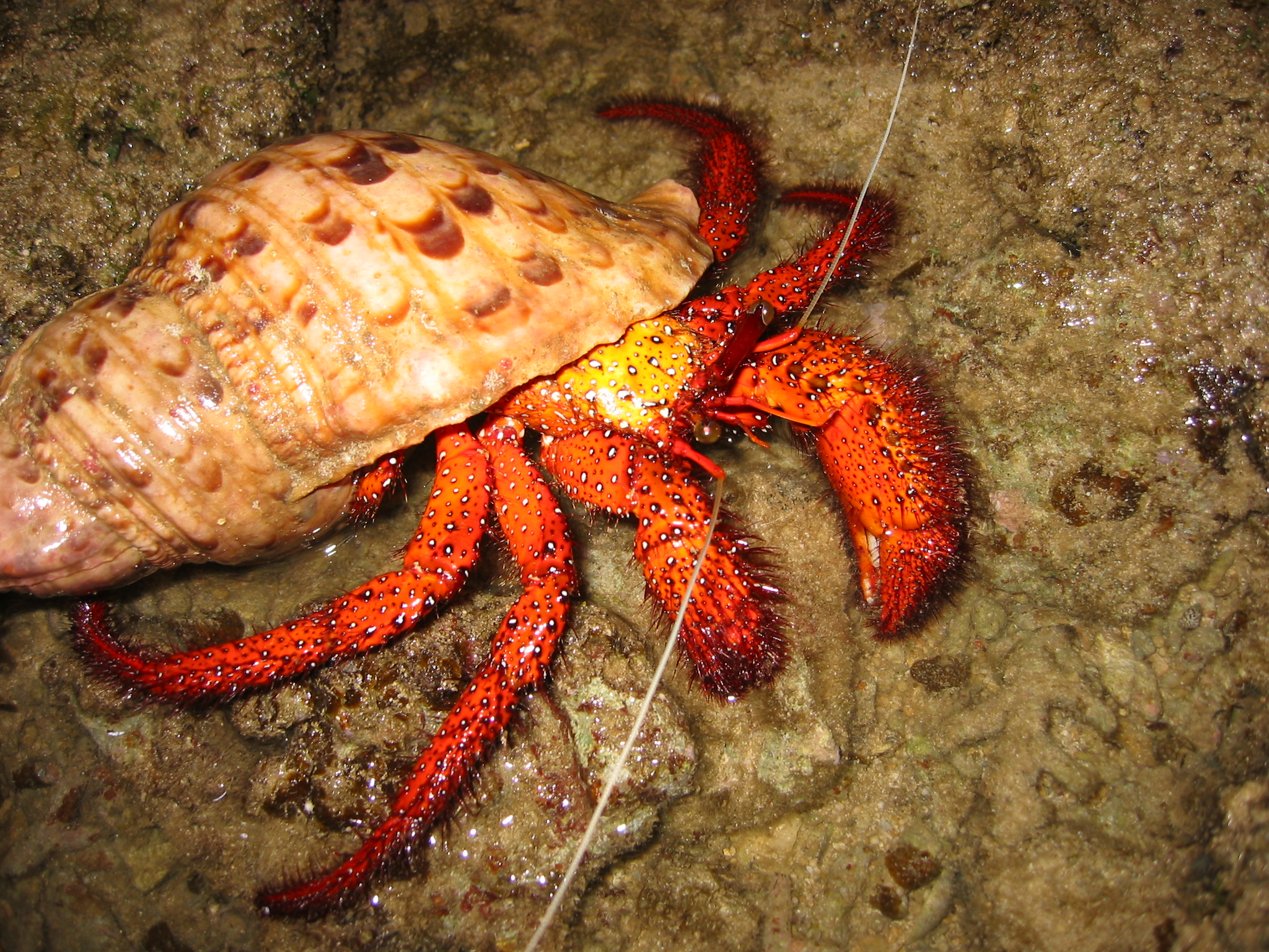 Dardanus megistos, wearing triton, taken at Haemida beach, Iriomote island, Japan.